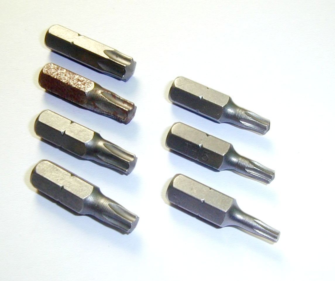 Set of several TORX screwdriver heads; sizes are T40, T30, T27, T25, T20, T15 and T10